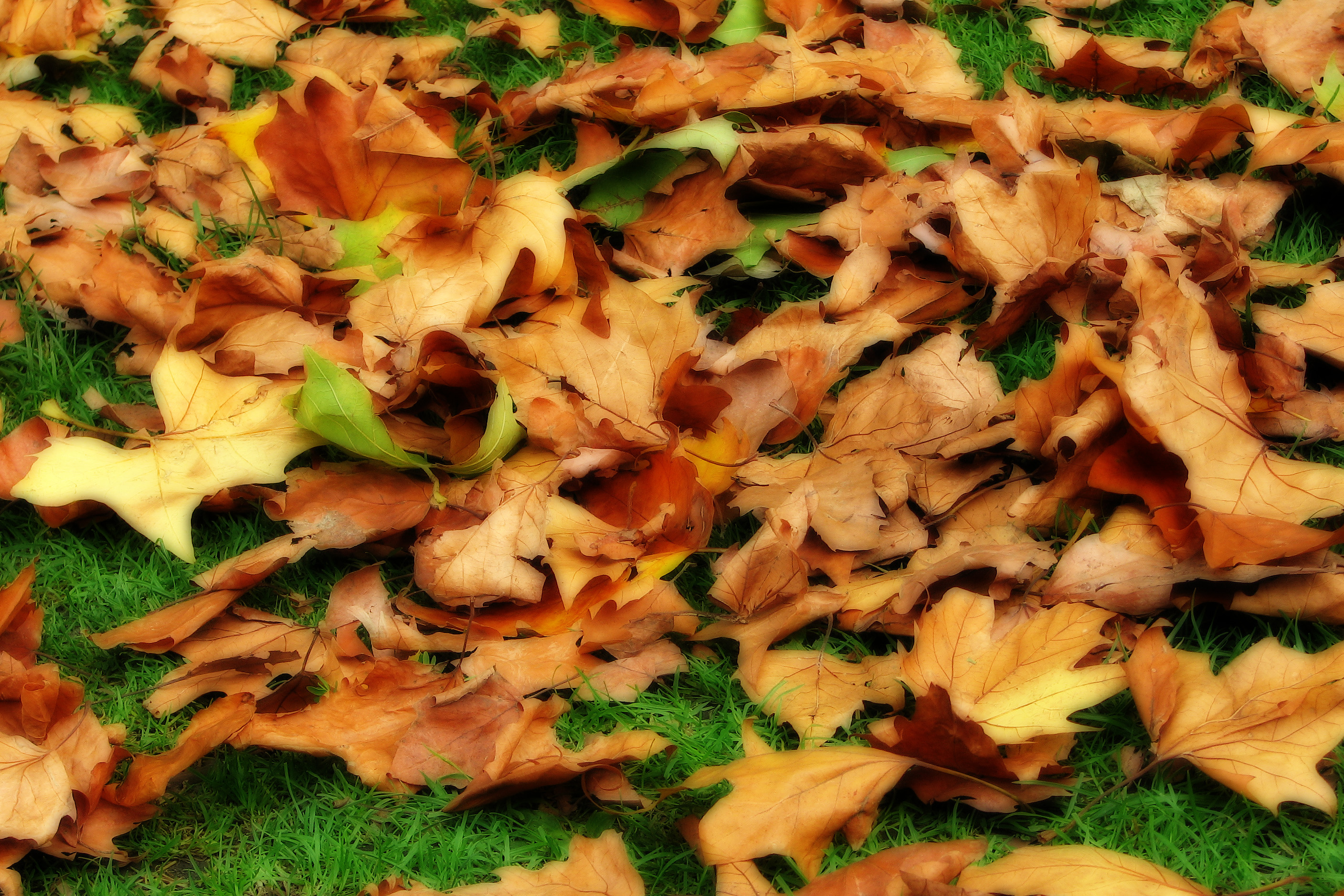 Some autumn leaves in the Circus in Bath, Somerset, England.